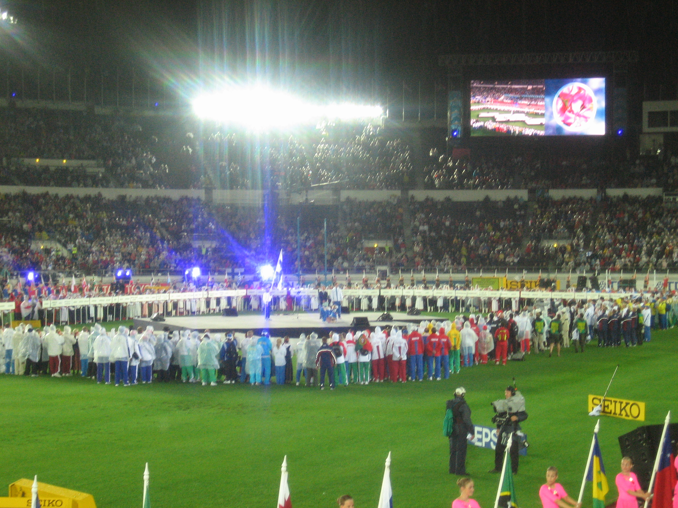 Lasse Virén in the opening ceremony of the 10th World Championships in Athletics, Helsinki, Finland in 6 August 2005